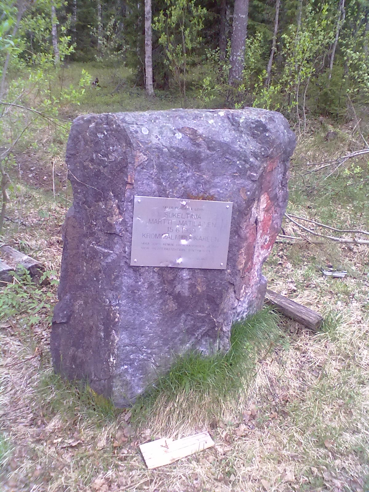 Memorystone erected in location where the first chromite malm sample was found on 15th June, 1959. The Kemi mine was open six years later. The rock is chromite ore and the plate is made of stainless steel.